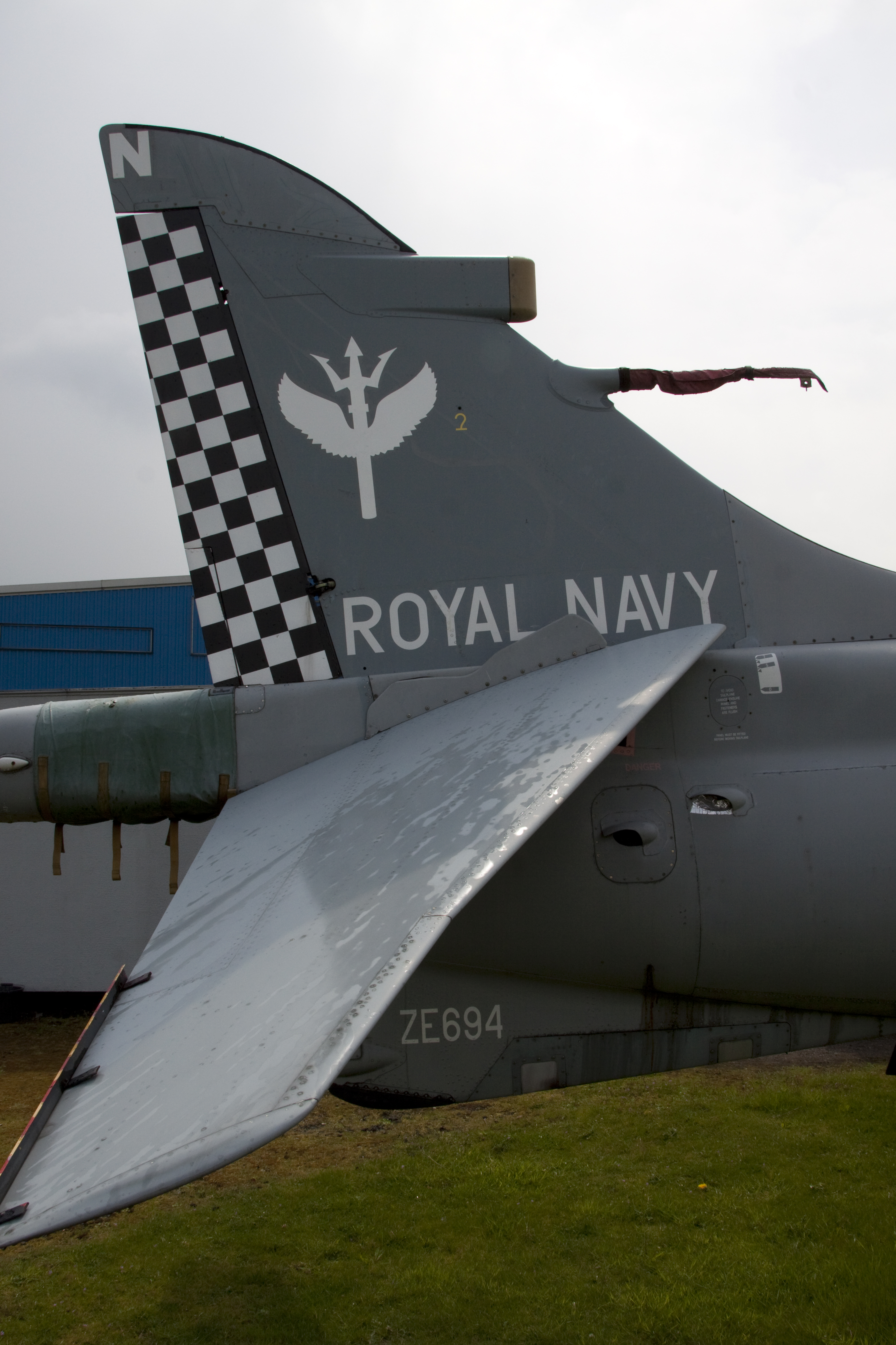 BAE Sea Harrier FA2 Tail